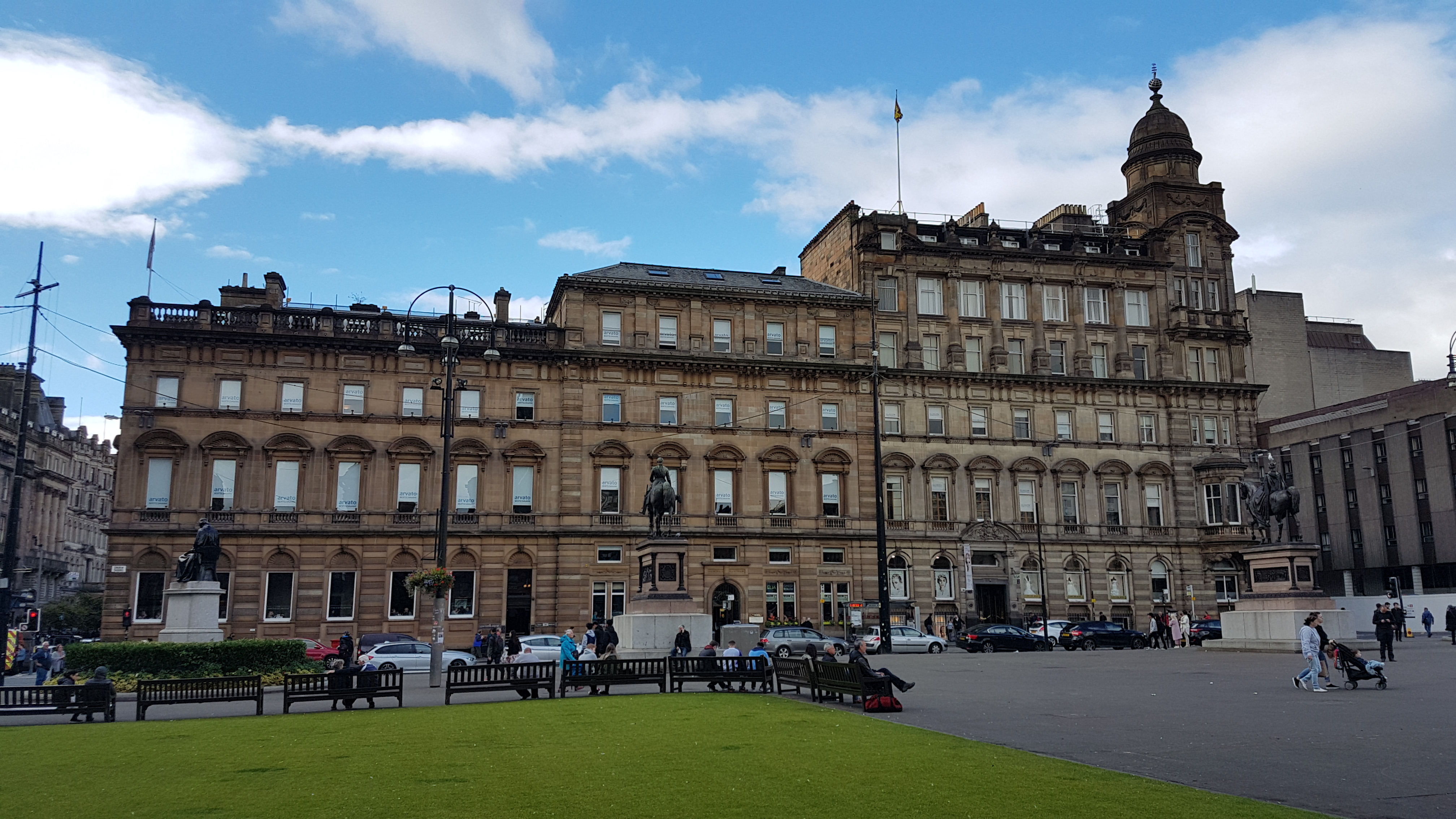 24 George Square Wikidata has entry Q17567448 with data related to this item.